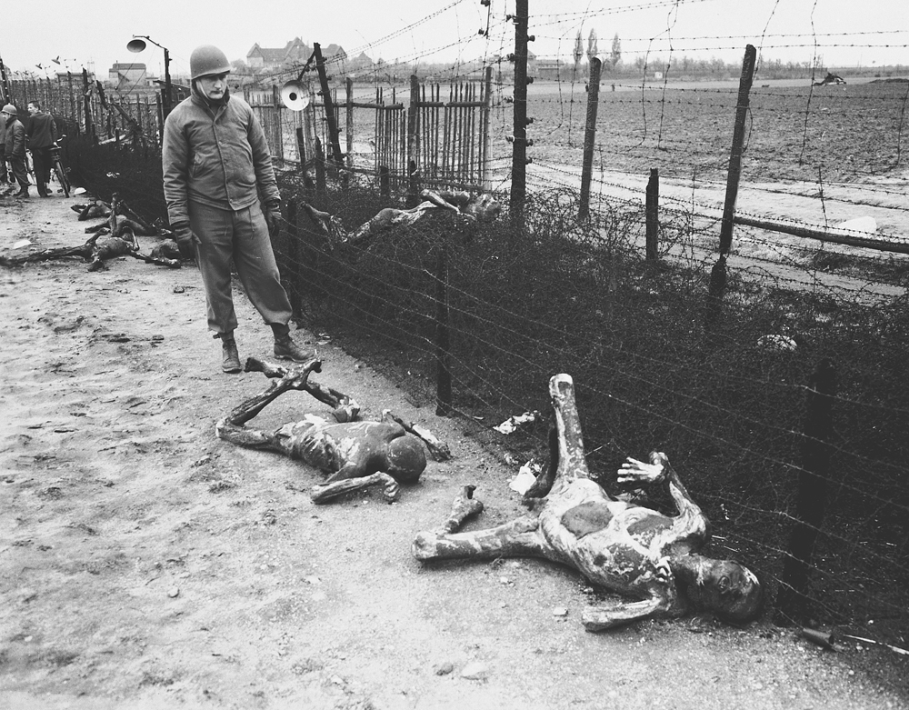 An American soldier stares at two badly burned corpses lying next to a barbed wire fence in the Leipzig-Thekla sub-camp.